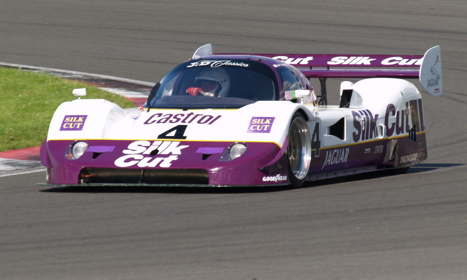 A Jaguar XJR-11 at the Silverstone Classic